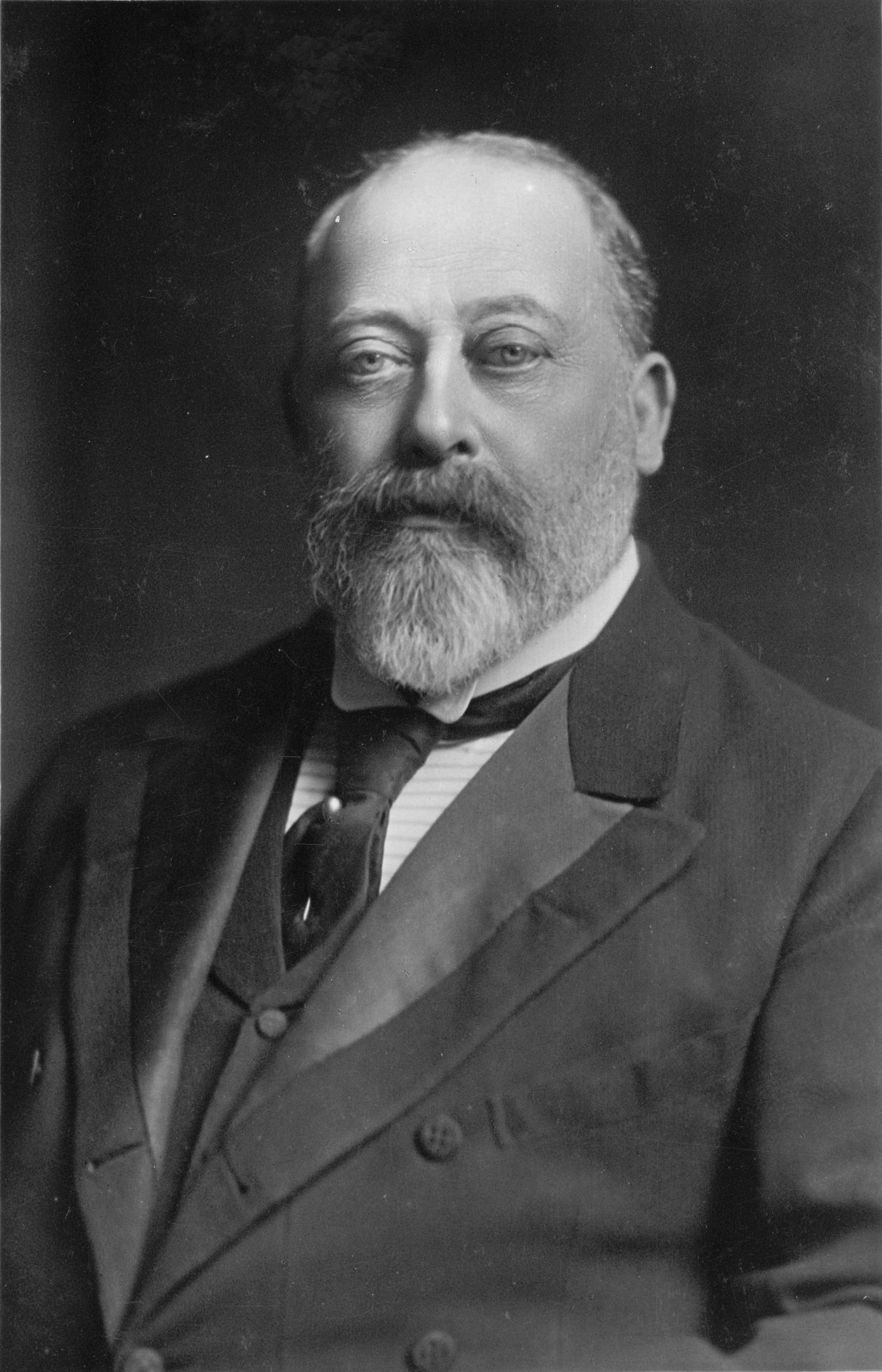 Depicted person: Edward VII – King of the United Kingdom and the British Dominions, and Emperor of India This is a retouched picture, which means that it has been digitally altered from its original version. Modifications: contrast enhanced, desaturated. The original can be viewed here: King-Edward-VII.jpg: . Modifications made by PawełMM.